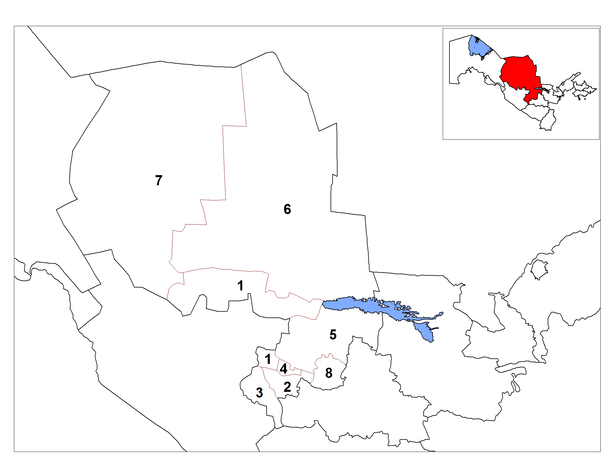 Districts of navoiy Province, Uzbekistan